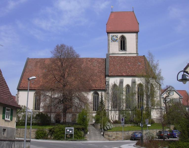 Church of Ehningen, Germany